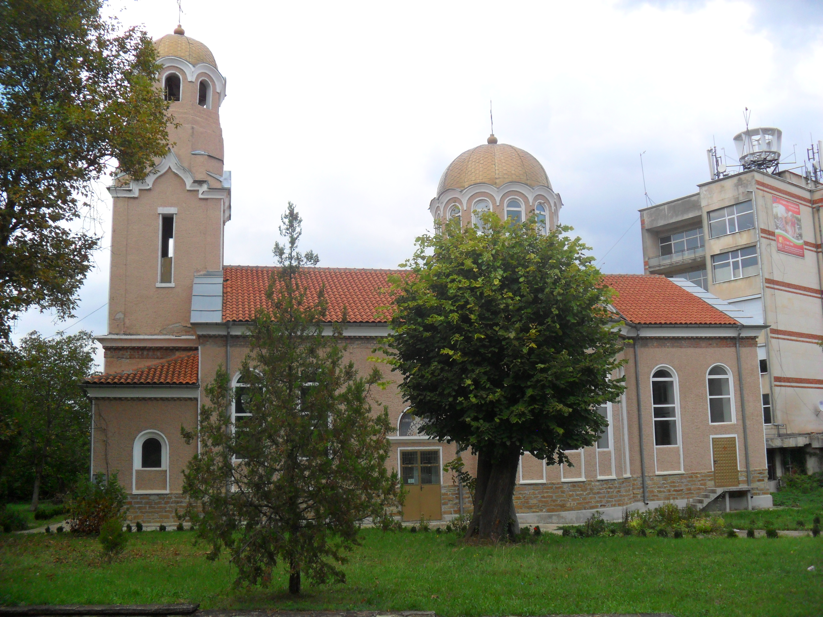 Church Saint Nikola in Lyaskovets